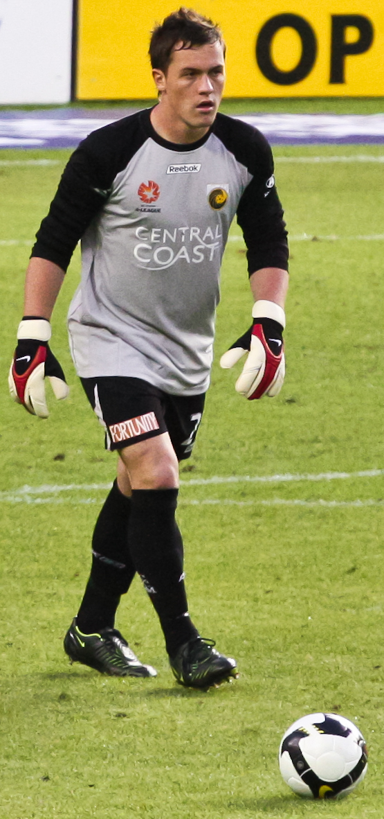 Danny Vukovic playing for the Central Coast Mariners against Sydney FC in round 10 of the 08/09 A-League